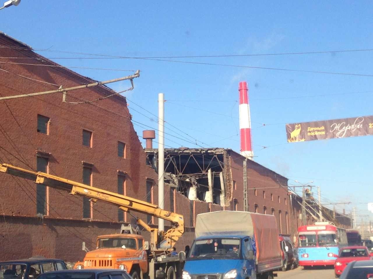 Damage consequent to the 2013 Russian meteor event to a building belonging to the Chelyabinsk Zinc Plant company (Chelyabinskiy tsinkovyi zavod OAO} as seen from Sverdlovskiy trakt, a north-south thoroughfare in the north end of the city of Chelyabinsk, Russia